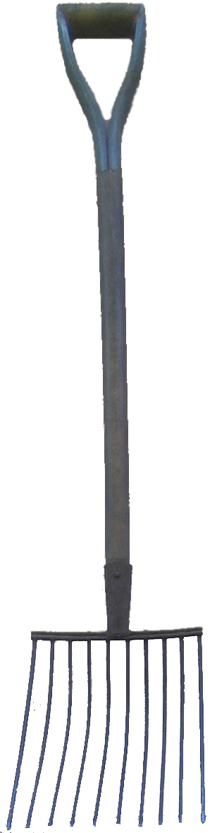 fork